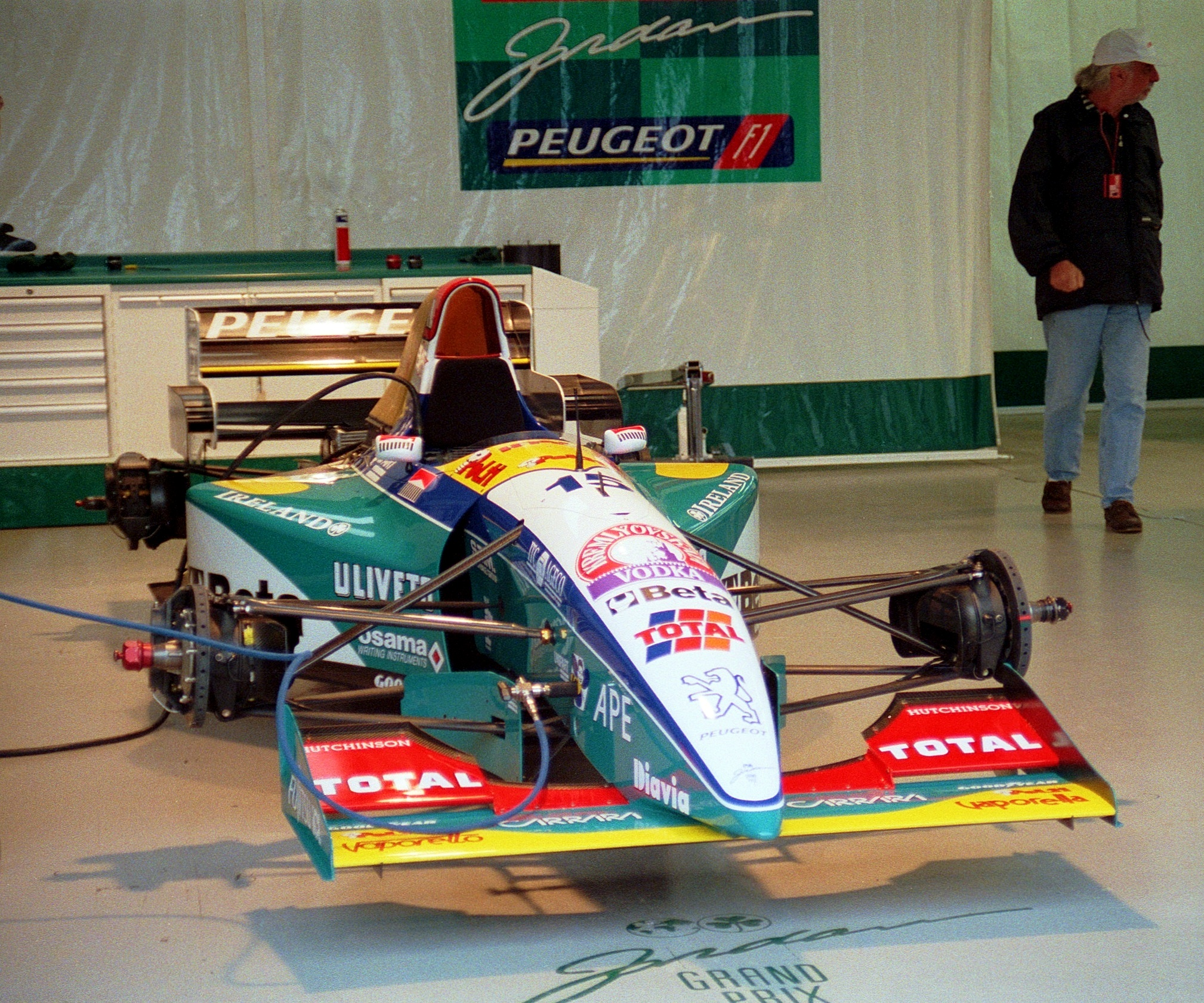 Jordan 195 - Eddie Irvine in the pit garage at the 1995 British GP, Silverstone